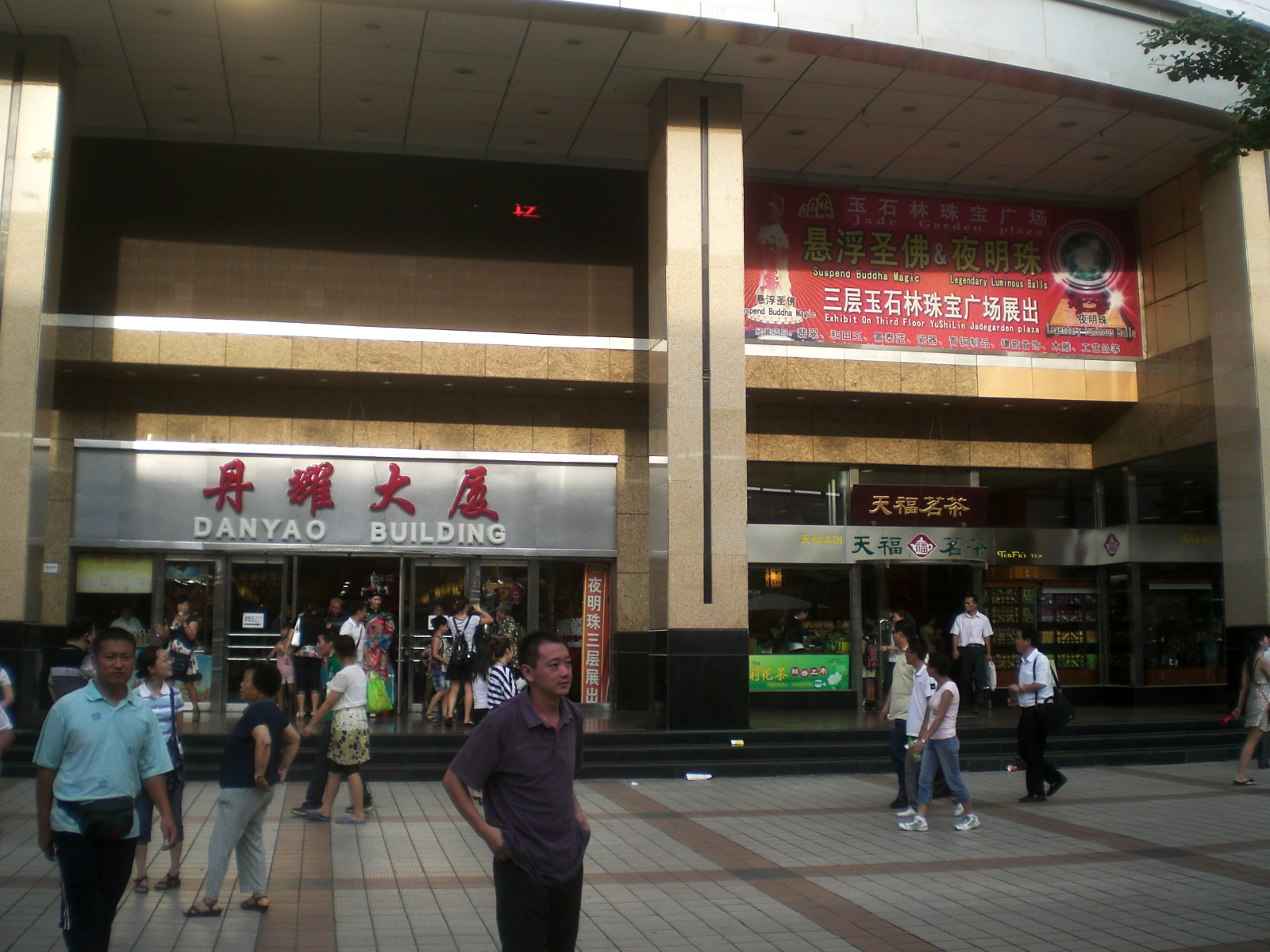 北京市東城區王府井王府井大街 丹耀大廈 行人專區